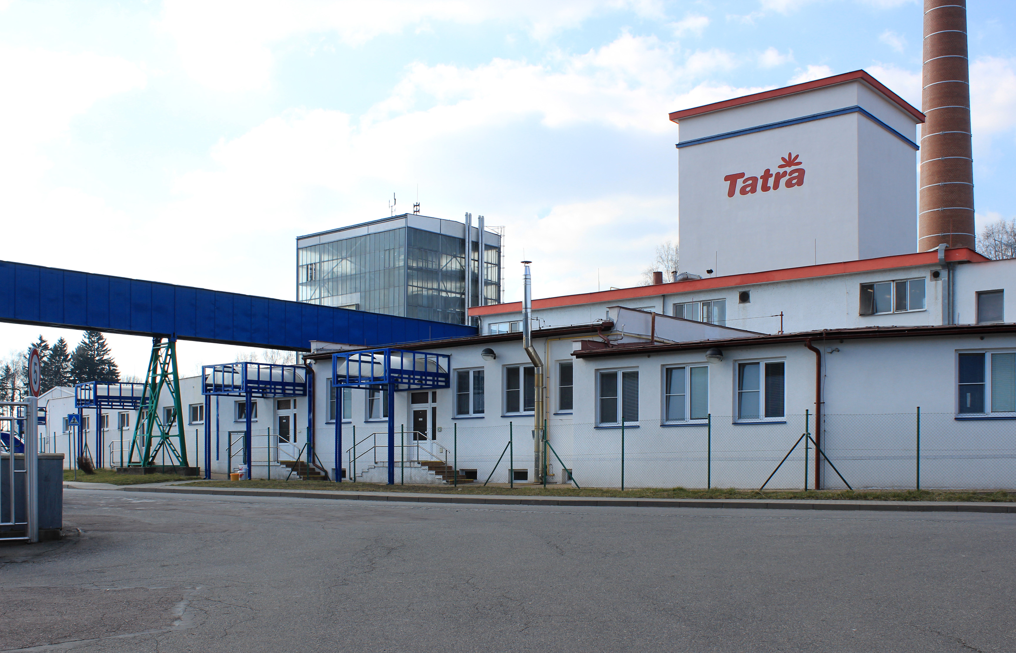 Diary factory in Kouty, part of Hlinsko, Czech Republic.